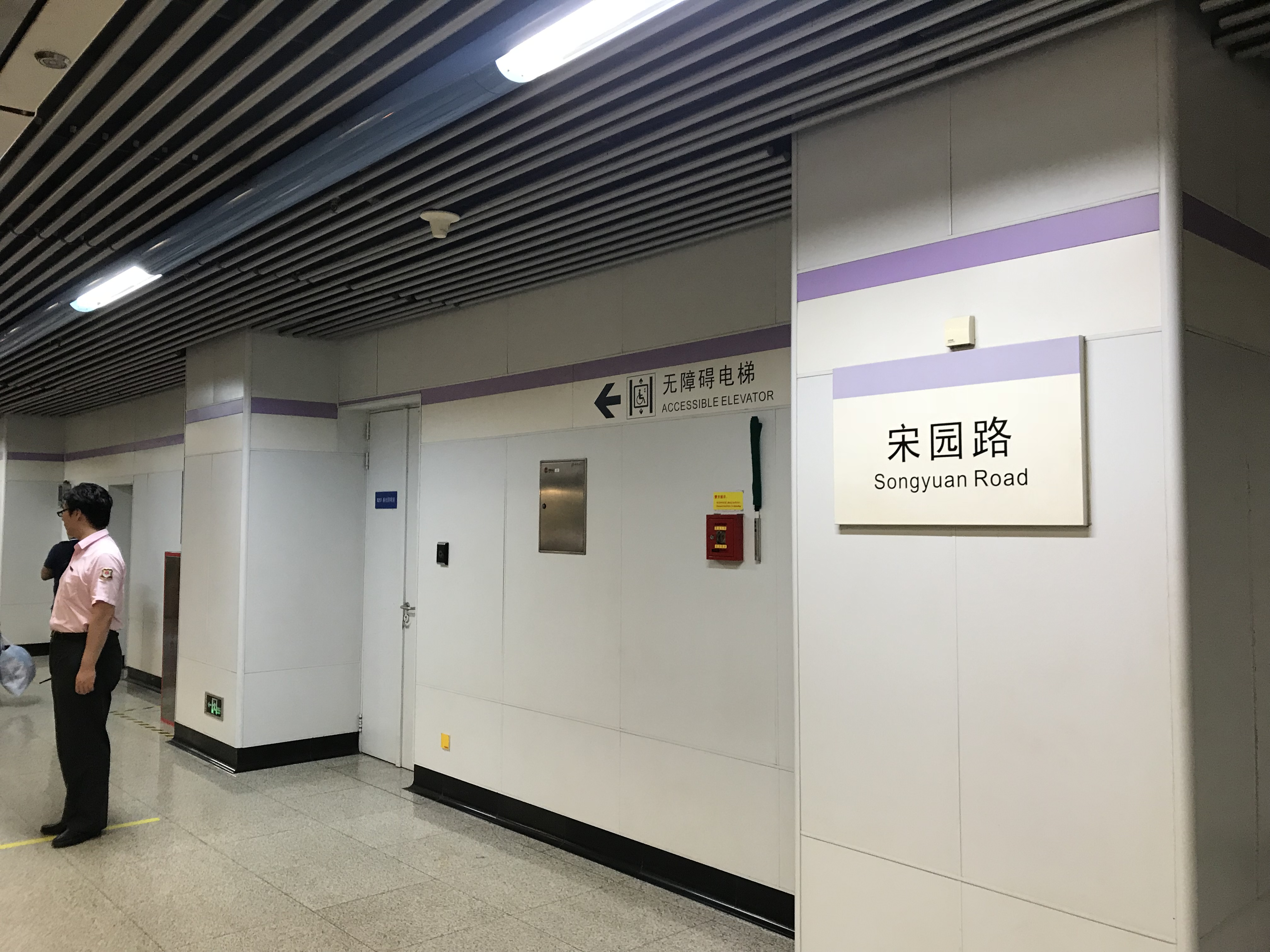 201806 Songyuan Road Station